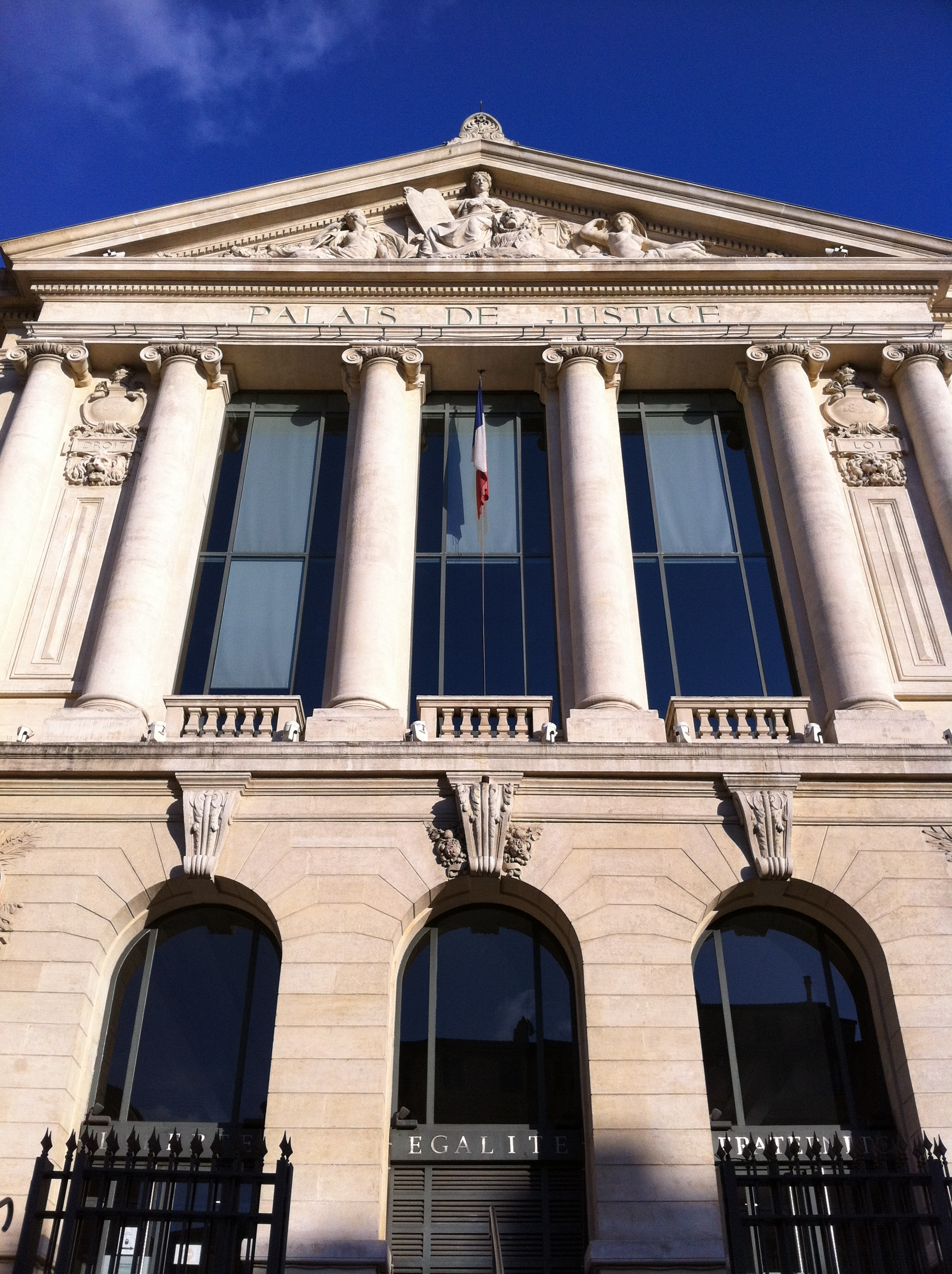 I took this photo on my own camera and own the whole rights to it.